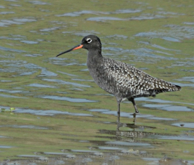 Image